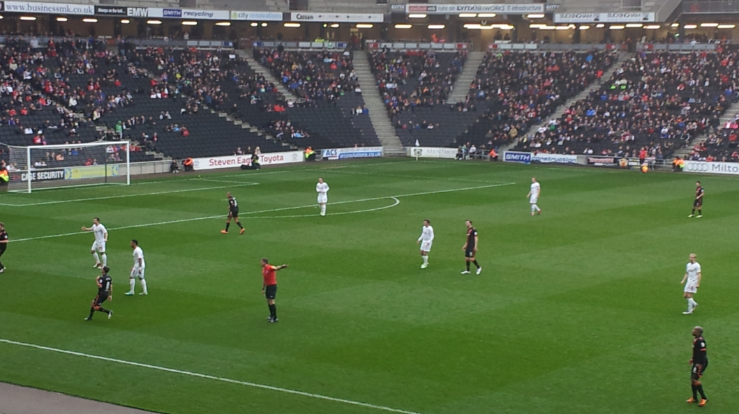 MK Dons V Sheffield United at Stadium MK on 10th November 2012.